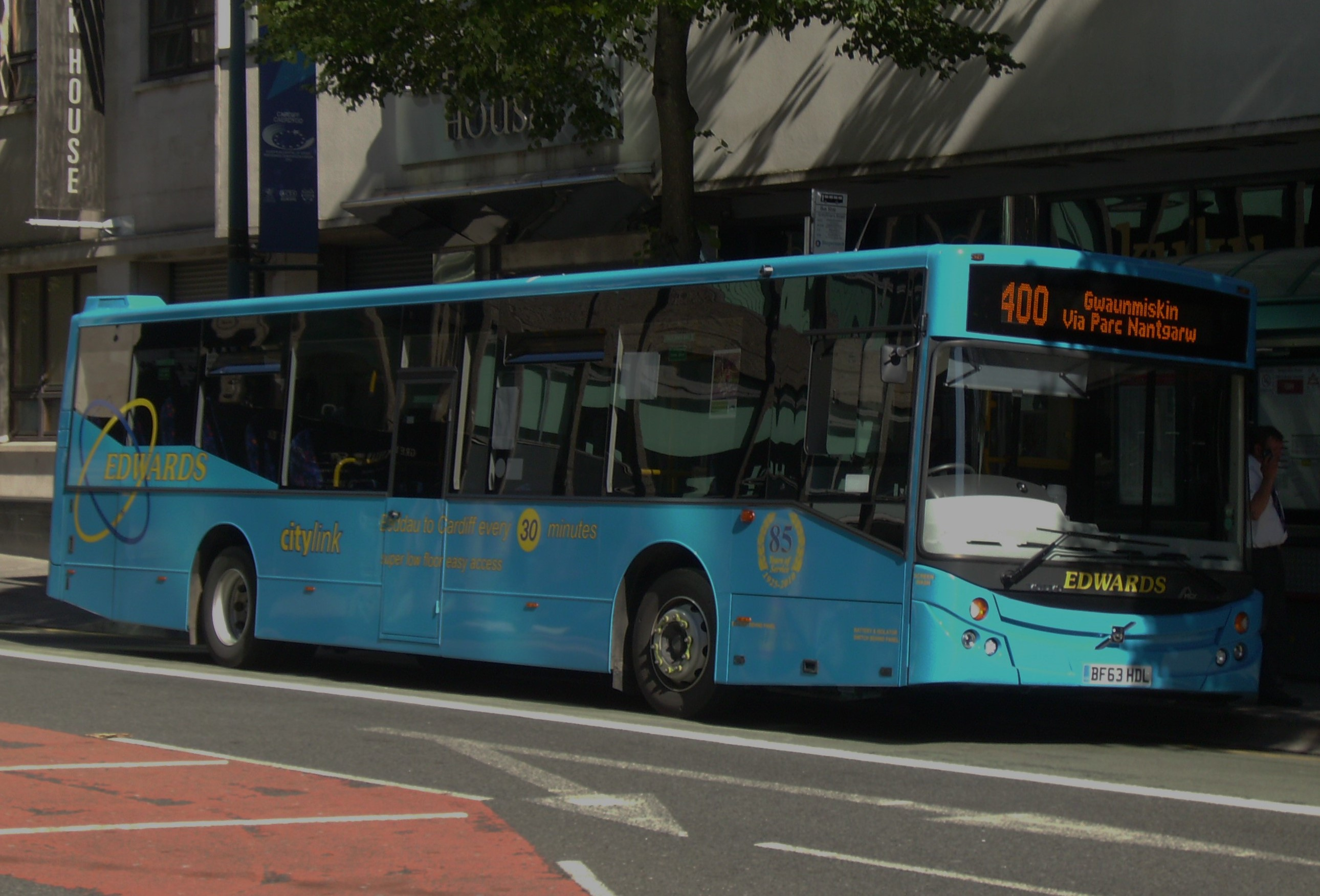 Edwards Coaches (service 400) Greyfriars Rd, Cardiff, Wales